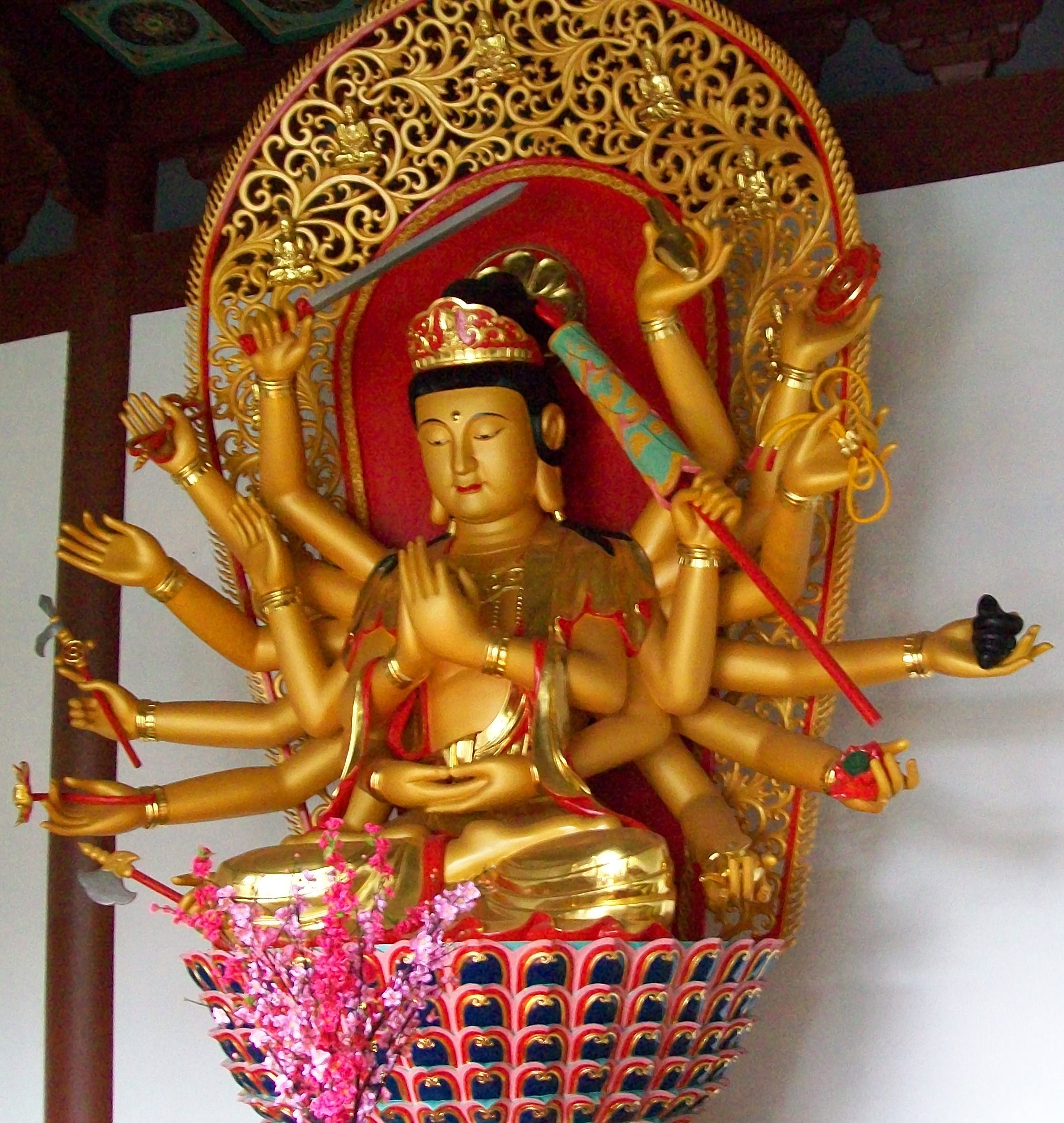 18-armed Cundi Buddha, a statue from Lingyin Temple in Hangzhou, Zhejiang Province, China. An esoteric form of Avalokitasvara Bodhisattva whose practices are popular in East Asia.